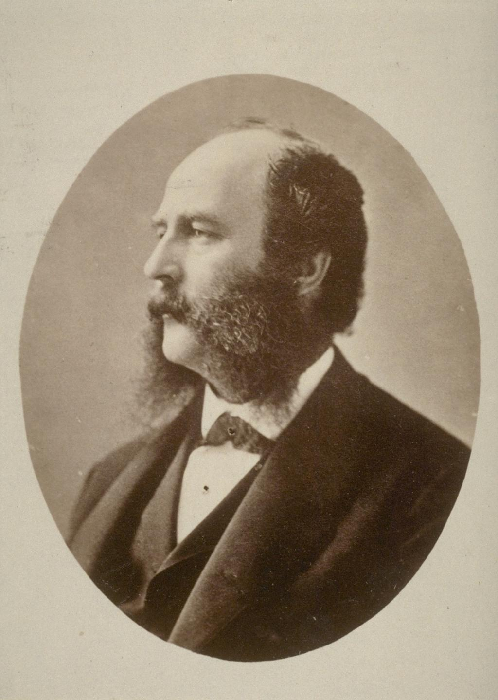 William Tell Coleman (1824-1893), American businessman based in San Francisco, California.